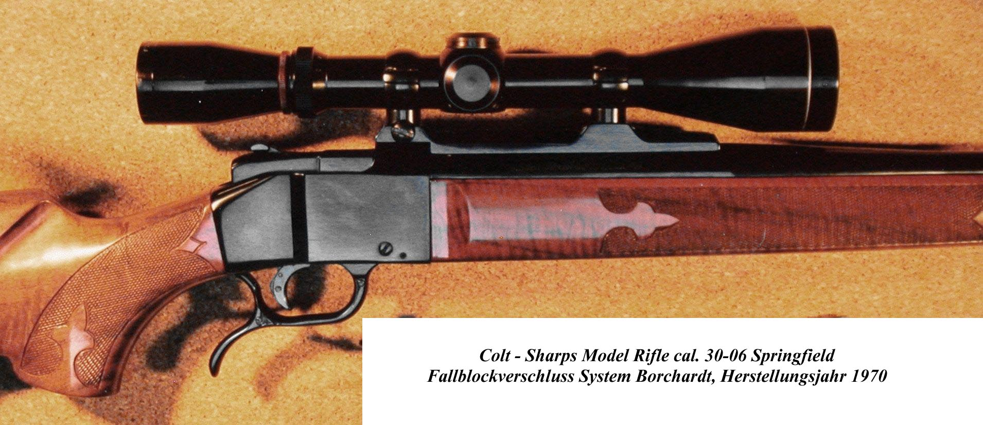 Colt Sharps-Borchardt Gewehr, hergestellt 1970